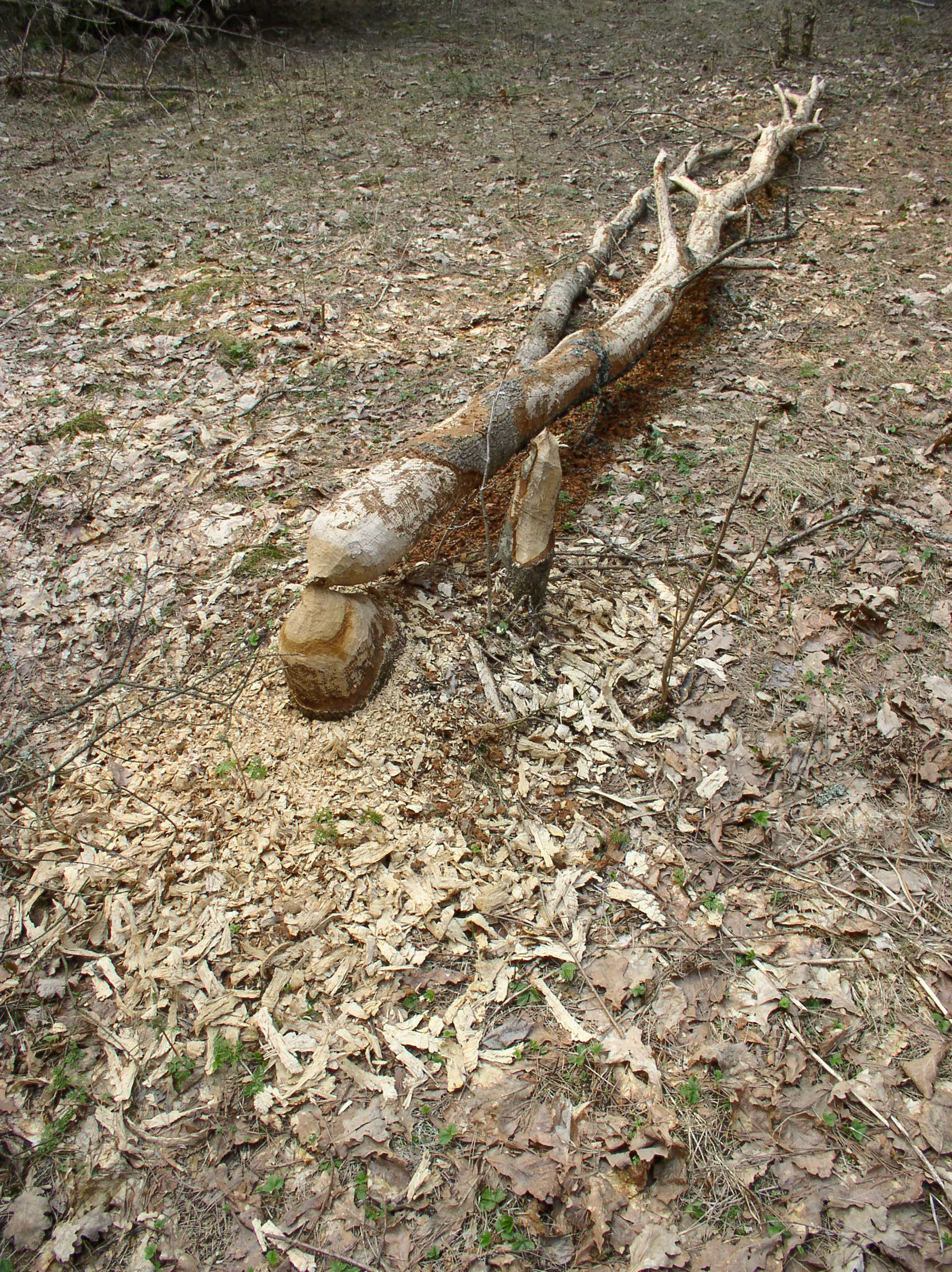 Beaver felled tree near Islach River, Belarus.